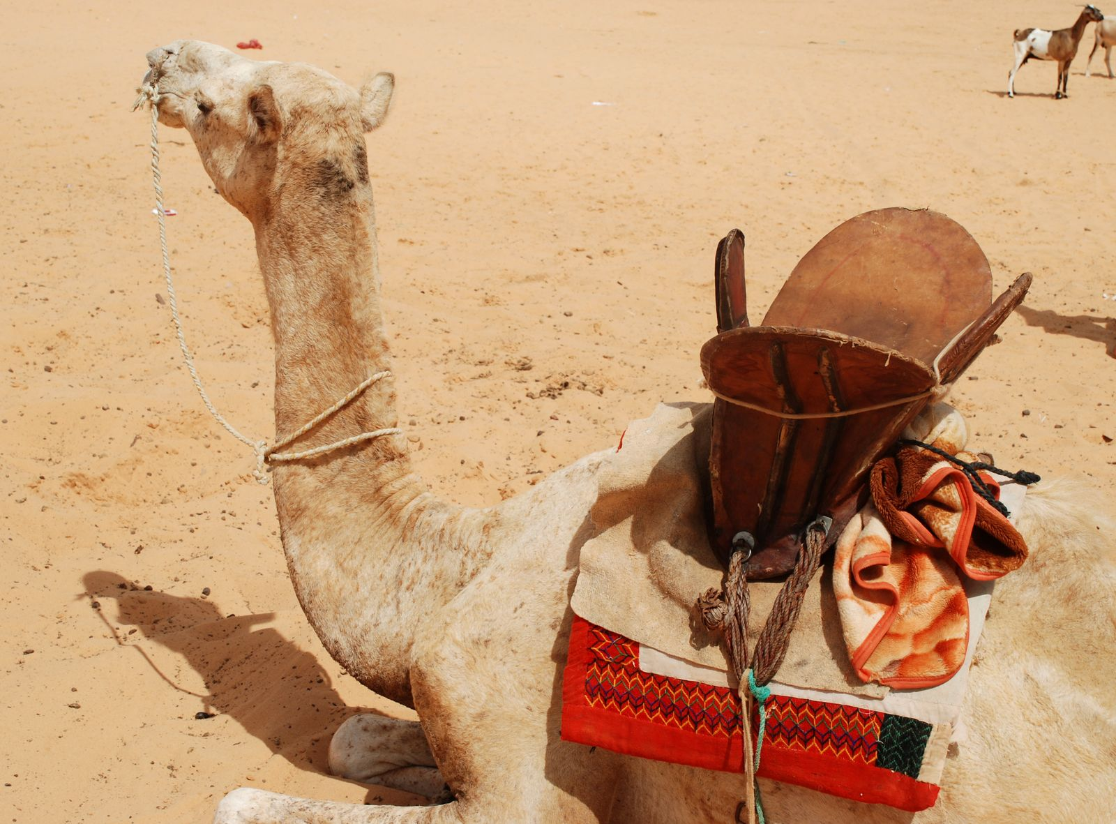 Rahla, saddle for camel in Tidjikja, Mauritania